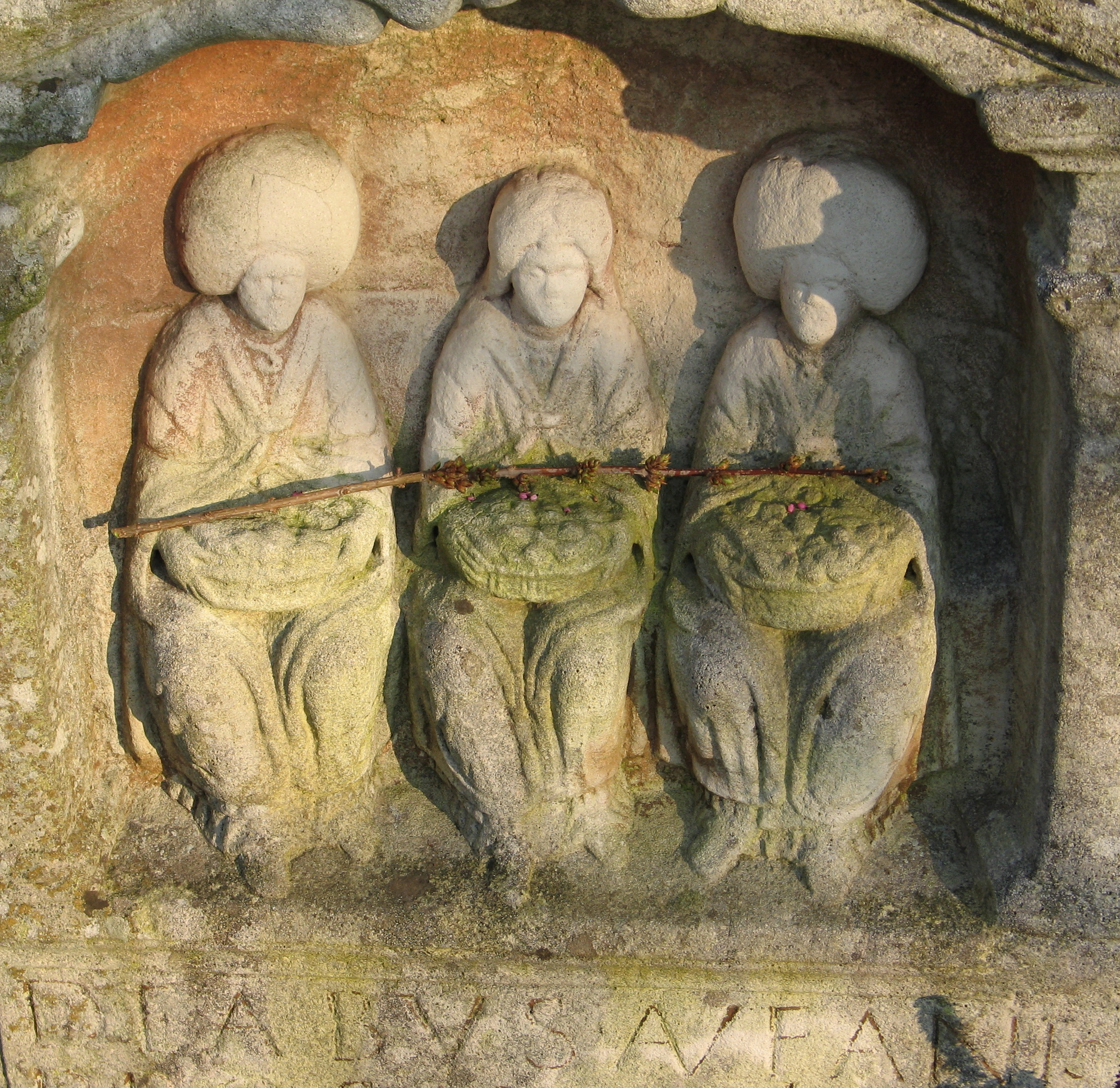 Roman-Germanic Matres and Matrones: Detail of a replica of an altar for the Mothers of Aufania (Matronae Aufaniae) from Nettersheim, Germany (around 211 – 217 AD; Rheinaue Park in Bonn; CIL XIII, 11984 = D 09330 = Lehner 00278 = AE 1911, 156).